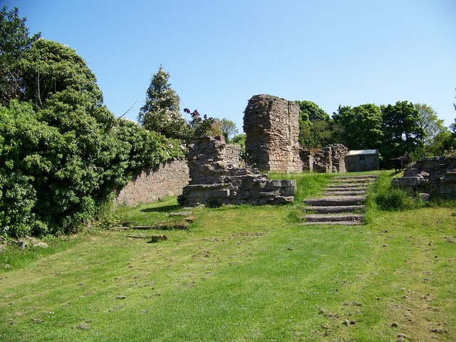 Balmerino Abbey The origin of the name Balmerino is uncertain but maybe derived from 'Bal' , Gaelic for township, and 'Merinach' an early Celtic saint associated with the area. The Abbey was founded in 1229 by Queen Ermengarde, wife of King William the Lion.